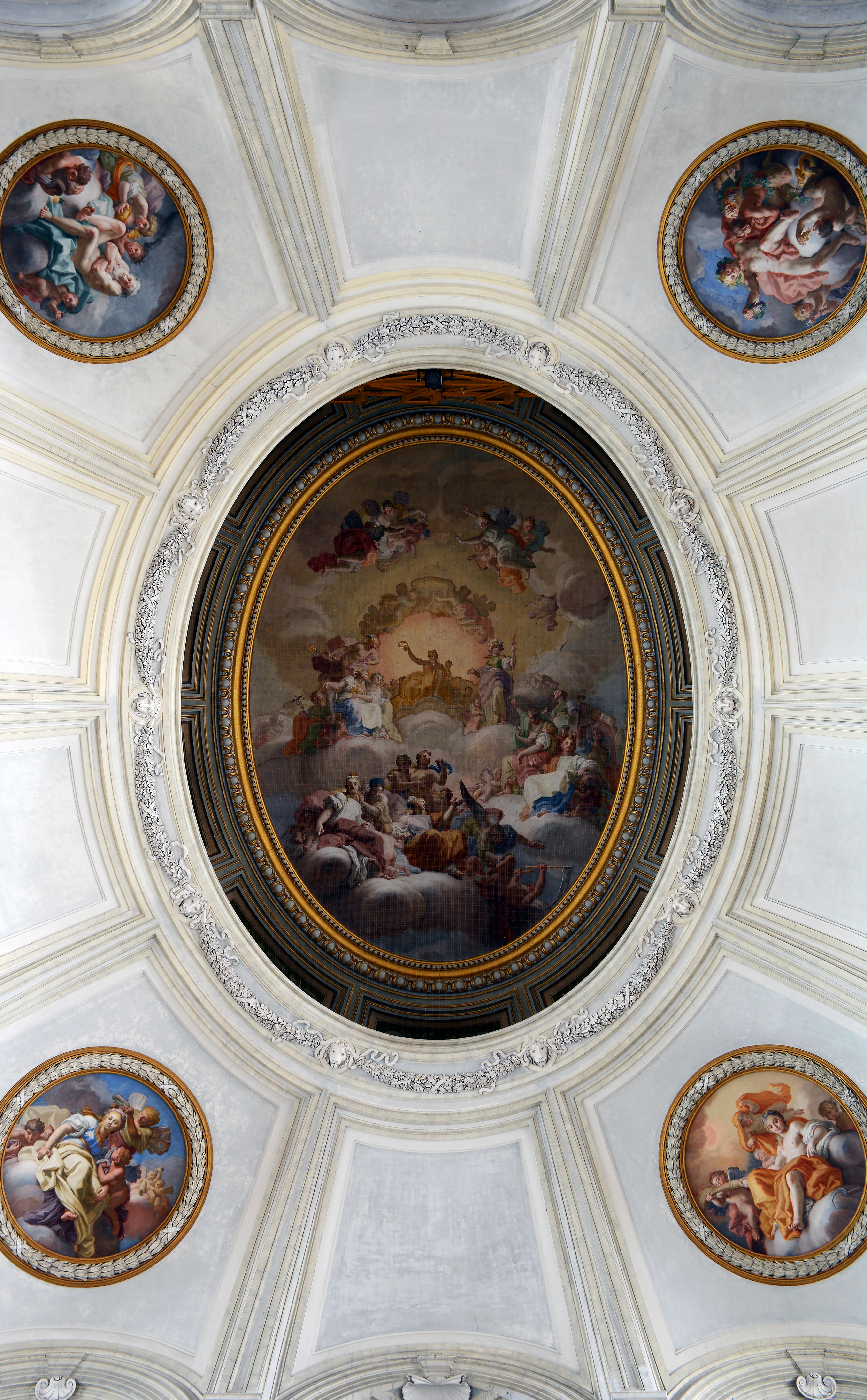 Ceiling of Honour Grand Staircase in the Palace of Caserta